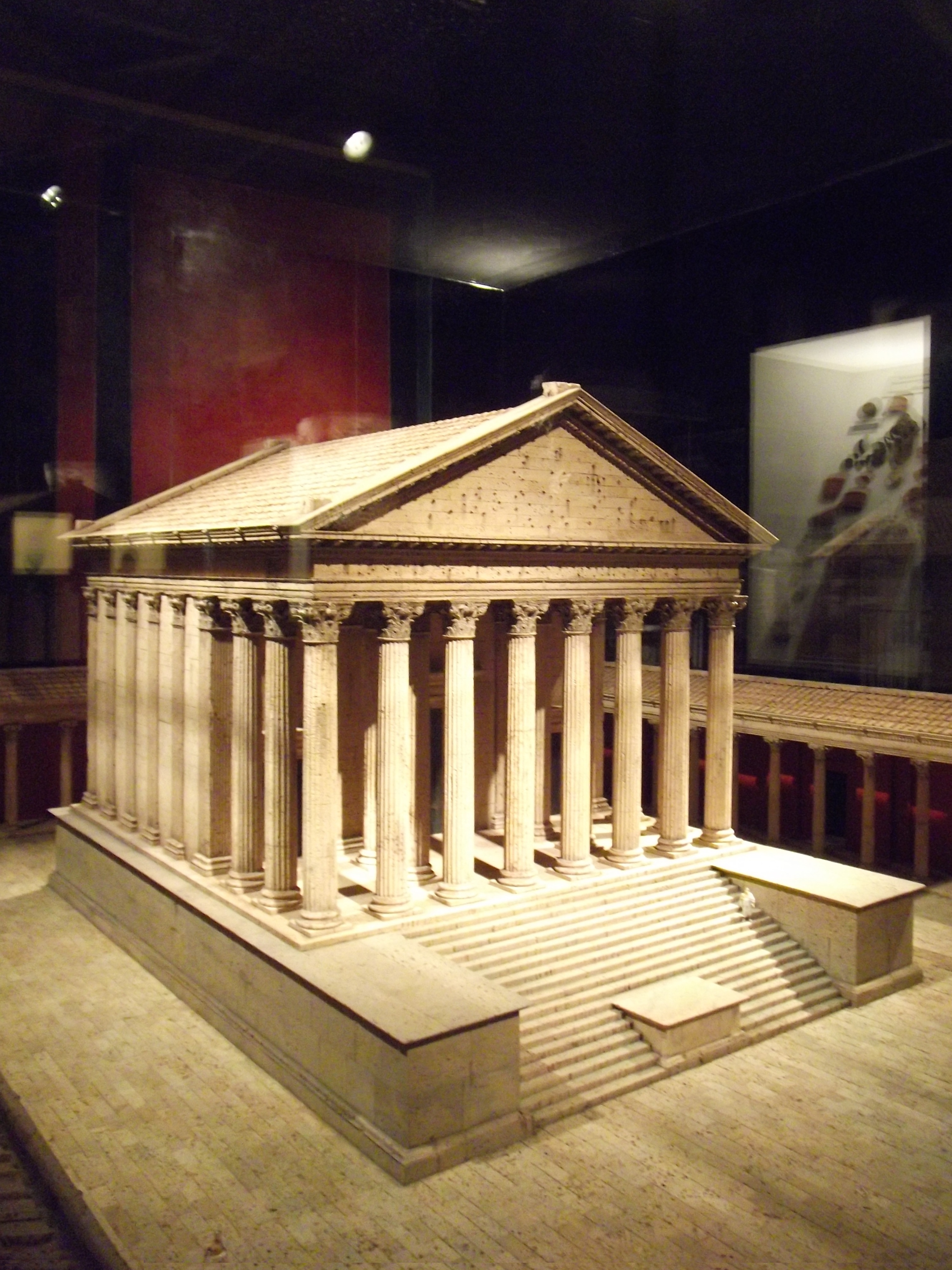 Front-side view of a model of the Cologne Capitol at Cologne Archaeological Zone, model built by Atelier Dieter Cöllen GmbH (2008) The Temple of the Capitoline Trias has been erected in the south-eastern corner of the city - likely under the emperors Trajan (98-117) or Hadrian (117-138). The foundations of the temple are mostly preserved under the later Romanesque church of St. Maria im Kapitol.